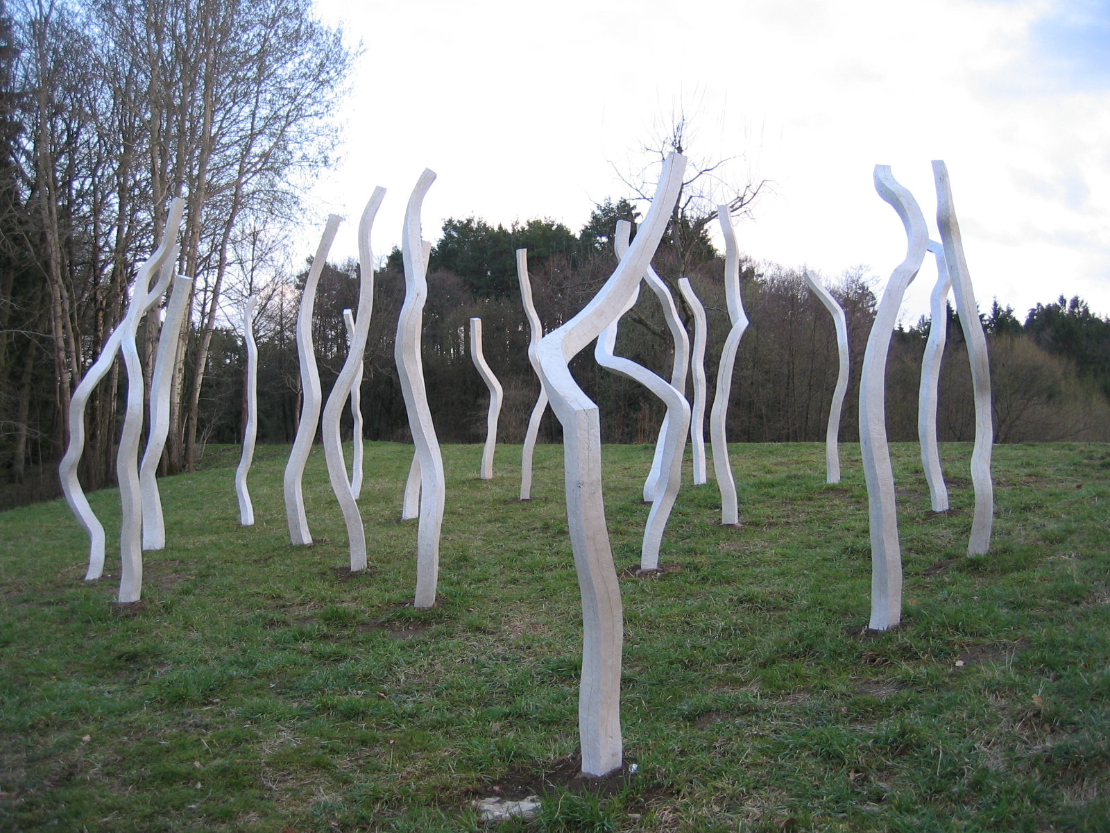 Kraftfeld, material: oak, Samo Skoberne (Slovenia), established March 2004